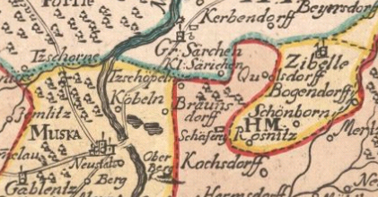 Crop from the map Image:Priebussischer Creis nebst Herrschaft Muska.png.